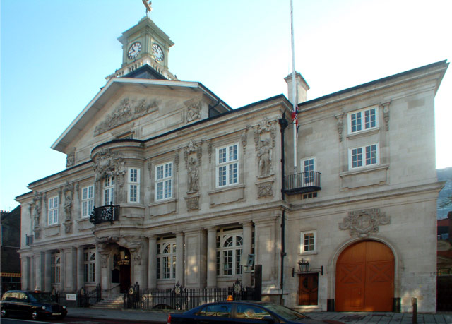 Deptford Town Hall, SE14. The Metropolitan Borough of Deptford built this Town Hall, in New Cross Road, in 1905. It is now used by Goldsmiths College, which stands behind it.